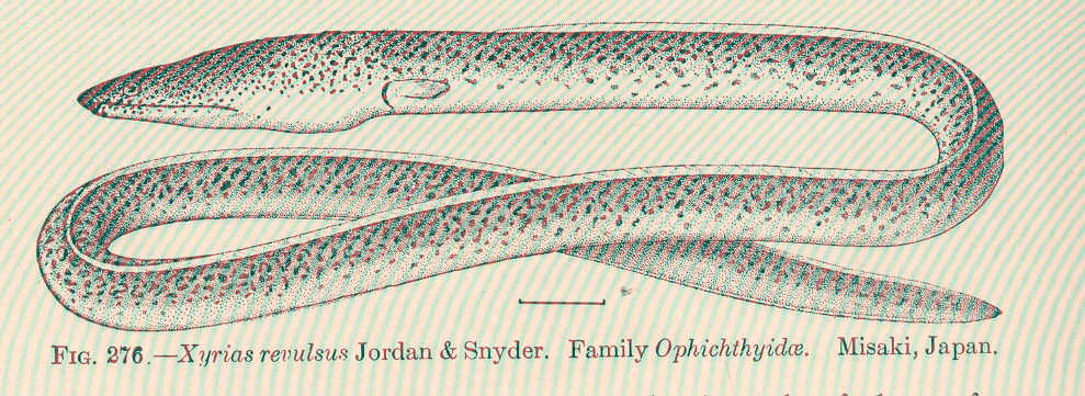 Xyrias revulsus Jordan & Snyder. Family Ophichthyidae. Misaki, Japan Subject: Eels Tag: Fish